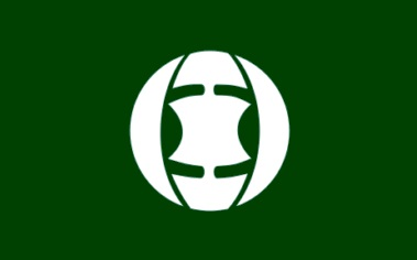 Flag of Ryuo Shiga